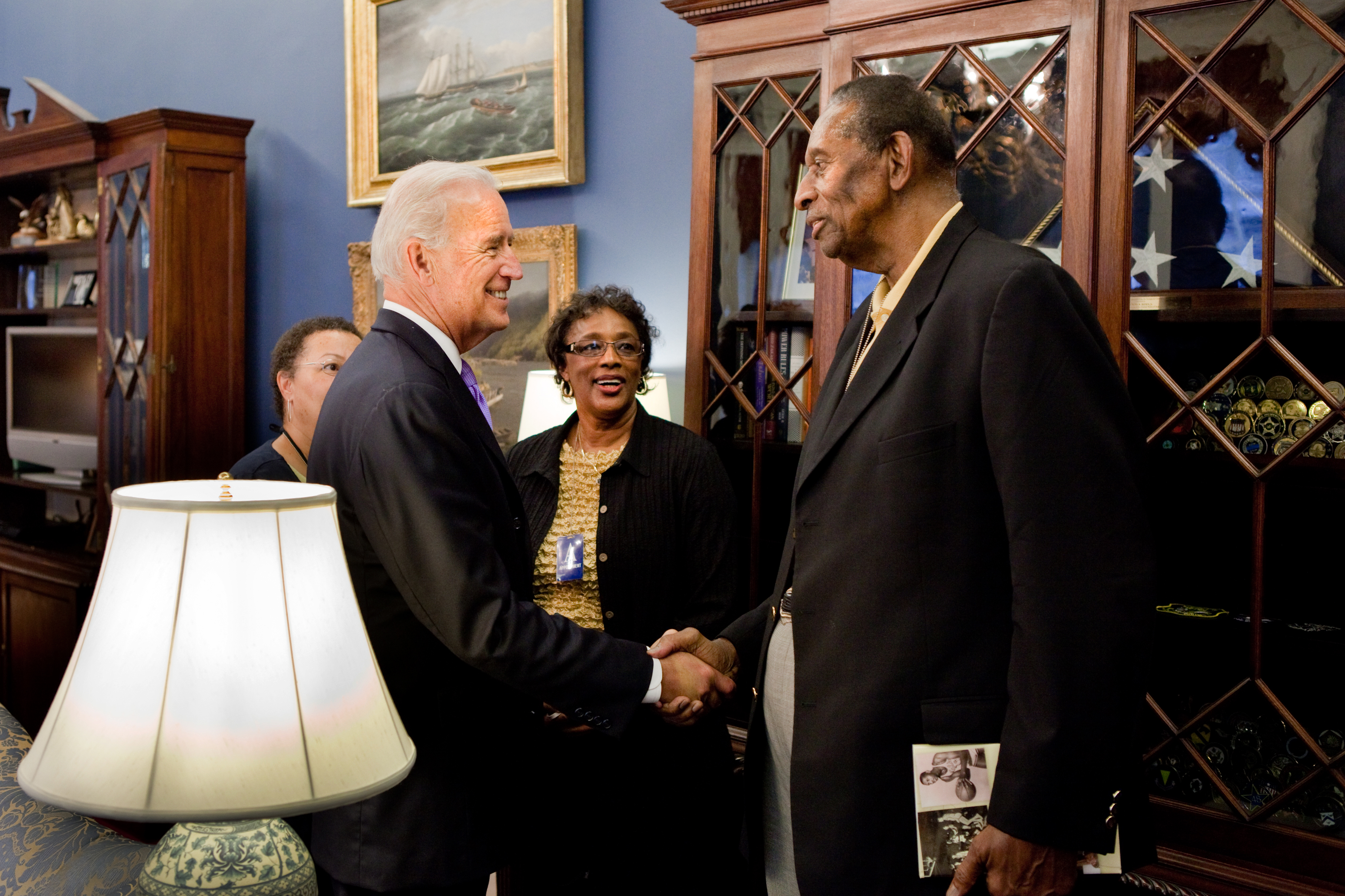 Vice President Joe Biden greets Earl Lloyd, the first African American to play in the NBA, in his West Wing Office, October 27, 2010. (Official White House Photo by David Lienemann) This official White House photograph is in the public domain from a copyright perspective, so while restrictions such as personality or privacy rights may apply, in general, manipulations are allowed.